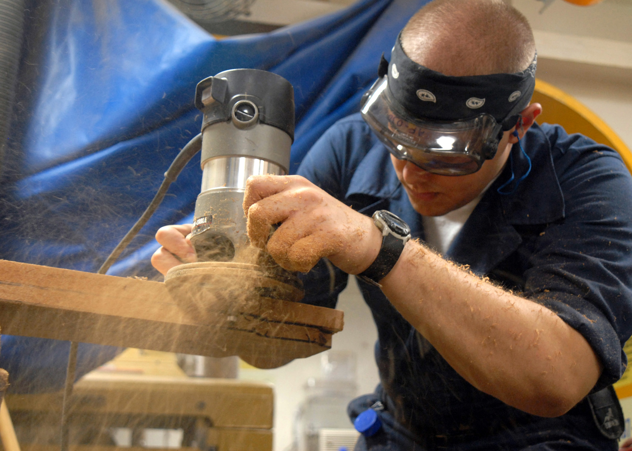 INDIAN OCEAN (Oct. 13, 2008) Hull Maintenance Technician Fireman Matt Brandsma assigned to the aircraft carrier USS Theodore Roosevelt's (CVN 71) repair division operates a router on a carrier plaque. Theodore Roosevelt and embarked Carrier Air Wing (CVW) 8 are on a scheduled deployment. (U.S. Navy photo by Mass Communication Specialist 2nd Class Remus Borisov/Released)